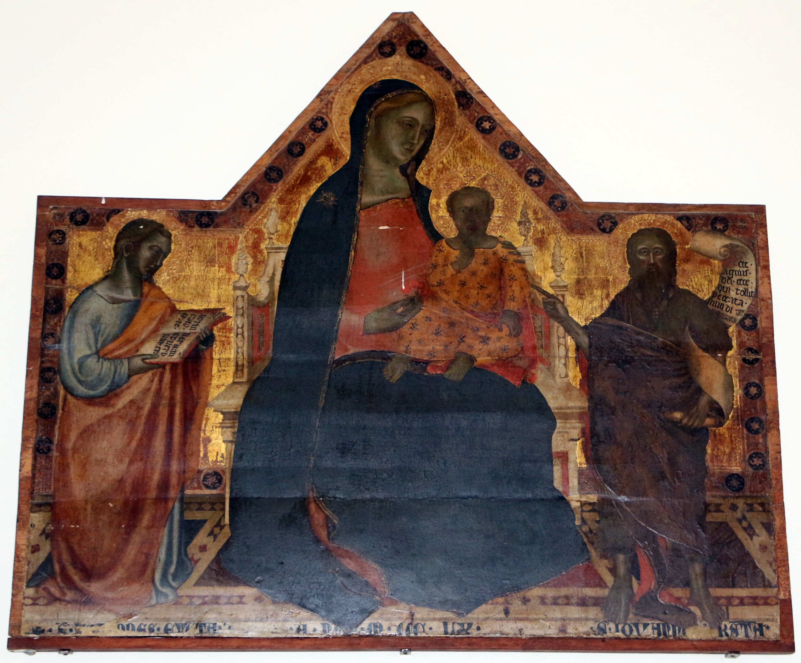 Town Hall (Pietrasanta)